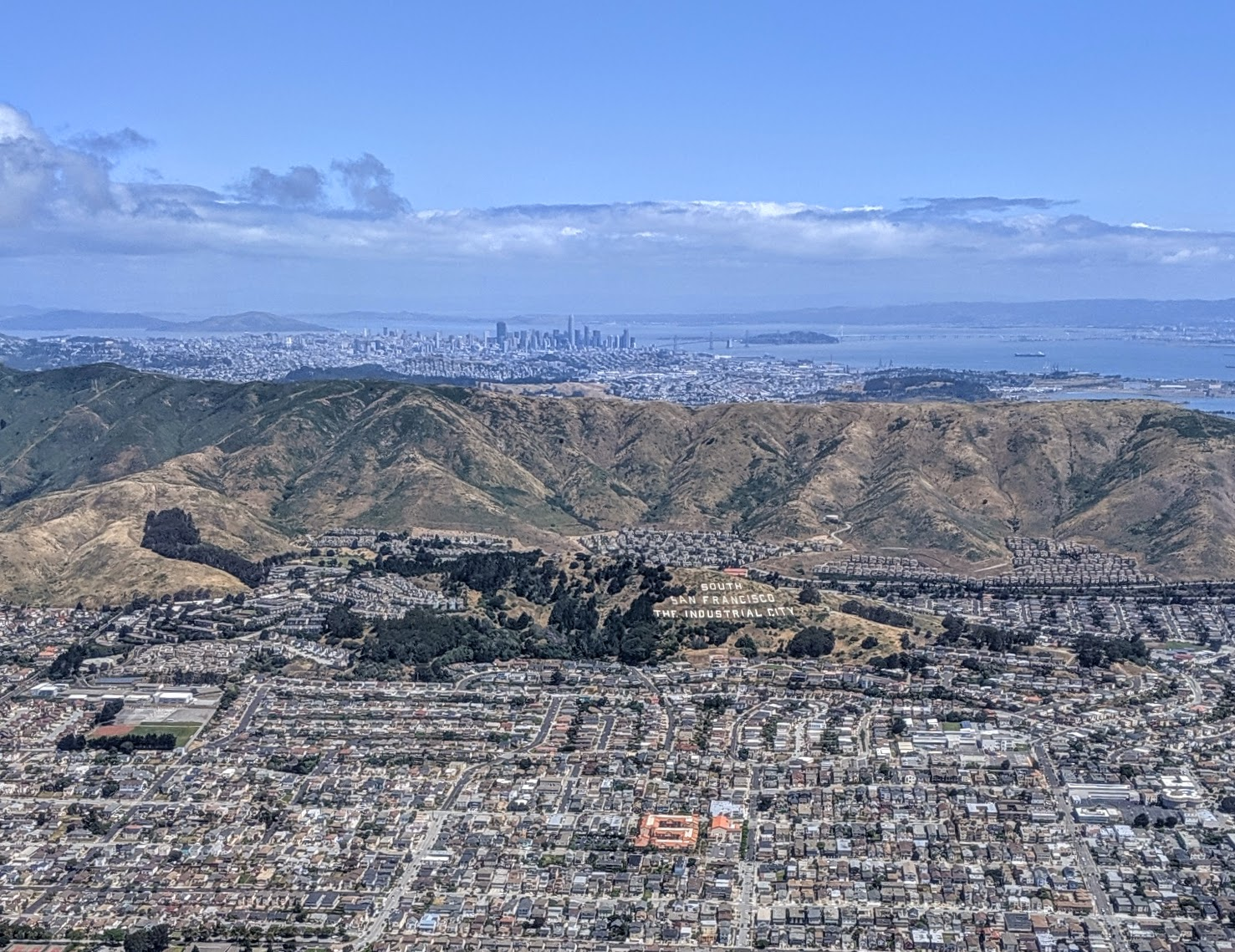 Aerial view from the south of South San Francisco, San Bruno Mountain, and San Francisco